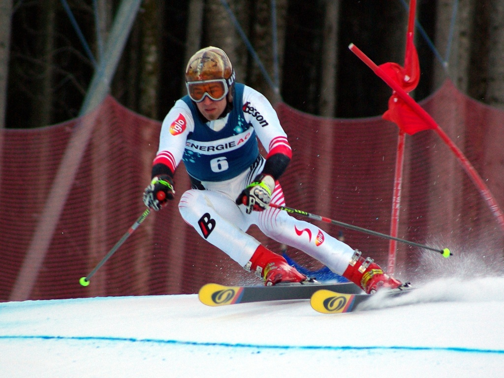 Austrian alpine skier Patrick Bechter during the European Cup Giant Slalom in Hinterstoder, Austria on January 11, 2008.